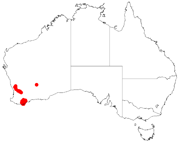 Acacia baxteri Occurrence data from Australasia Virtual Herbarium downloaded from on 8 December 2018